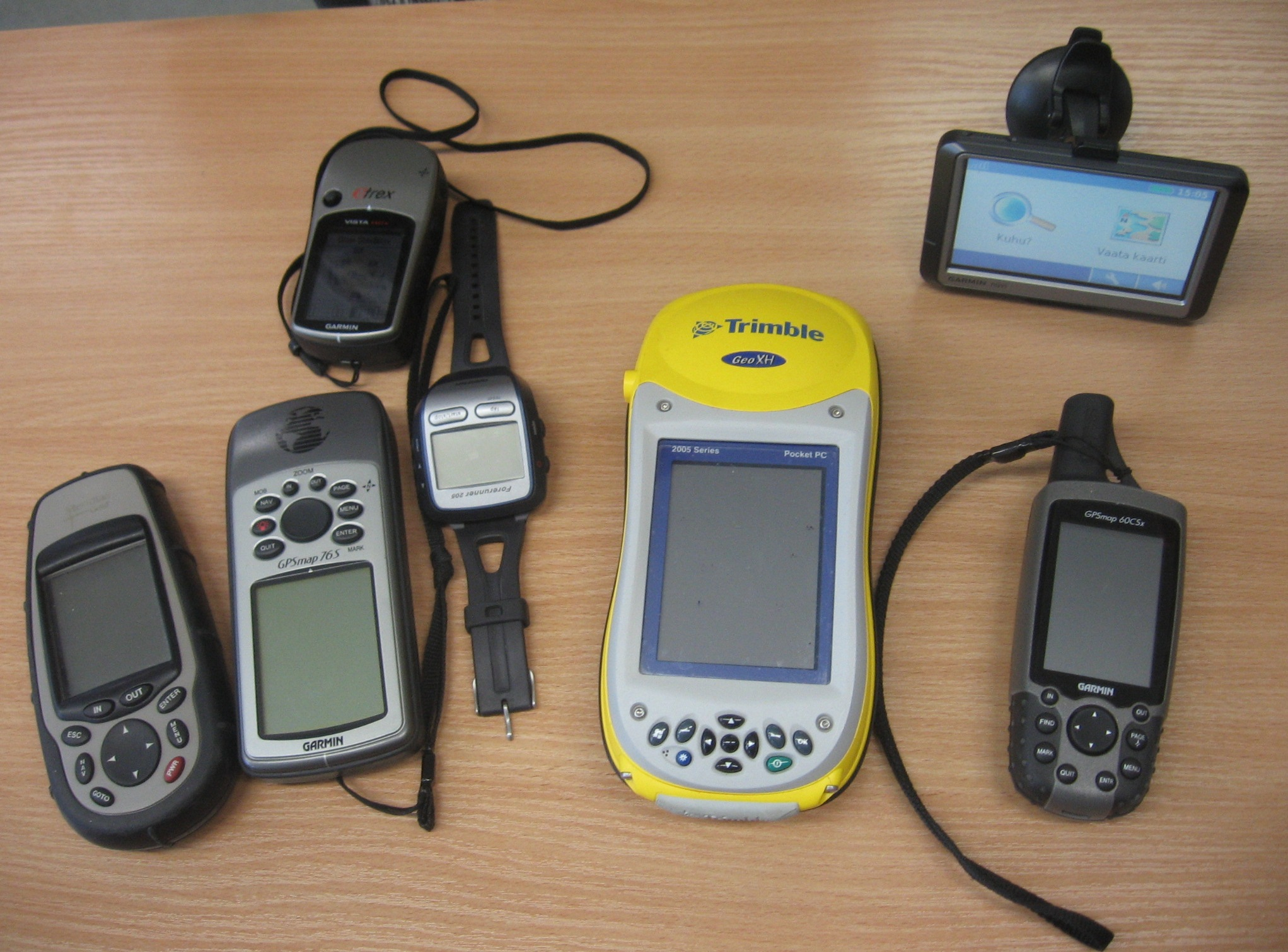 GPS Receivers. Models include Garmin eTrex Vista HCx, Garmin Nuvi, Magellan Meridian, Garmin GPSMAP 76S, Garmin Forerunner 205, Trimble GeoXH 2005, Garmin GPSMAP 60CSx.